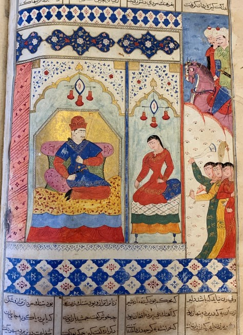 Scene showing Alexander sharing his throne with Queen Nushabah. The manuscript is from the the Bengali-Persian Sharafnāmāh, dated 1531 and produced for Sulṭān Nuṣrat Shah of Bengal (r. 1519-38). The text is from Niẓāmī’s Khamsah (Quintet), and is the first half of the Iskandarnāmah that describes the conquests of the Alexander the Great, the last poem of the quintet. This slim volume contains nine vibrant paintings that show the assimilation of both Indic and Persian artistic traditions. Such adaptations were common to several fifteenth-century manuscripts from sultanates in the Indian subcontinent.